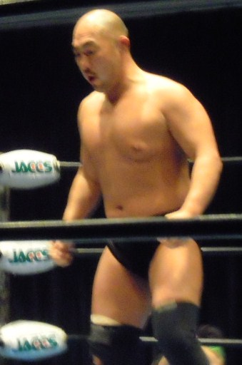 Japanese professional wrestler,Tatsuhito Takaiwa. Apr 14 2012, BJW Yokohama Nigiwaiza.